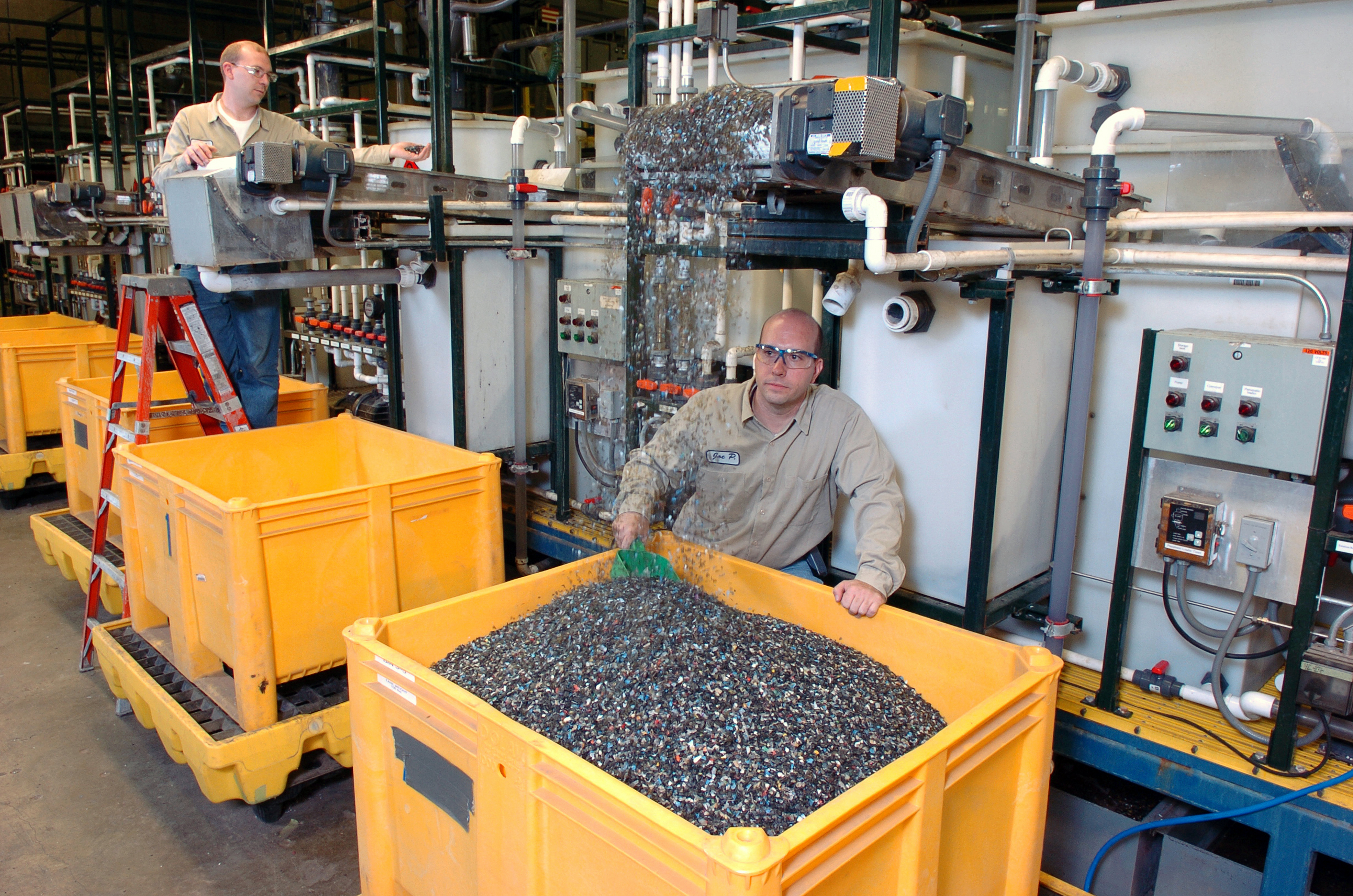 Individual plastics are separated for recycling using froth flotation, a process separating water-shedding (hydrophobic) materials from water-attracting (hydrophilic) materials.